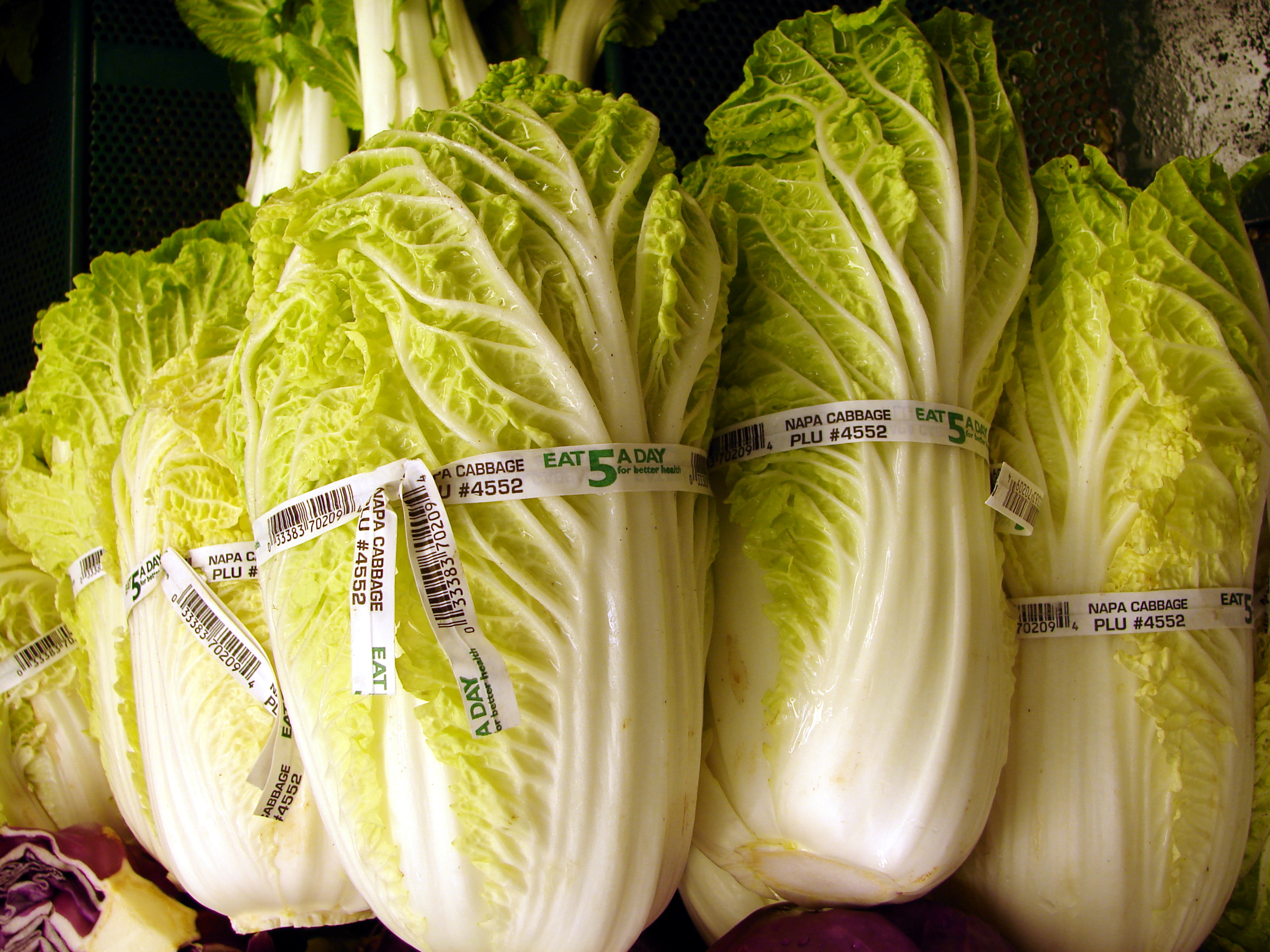 Brassica rapa (Napa cabbage). Location: Maui, Foodland Pukalani